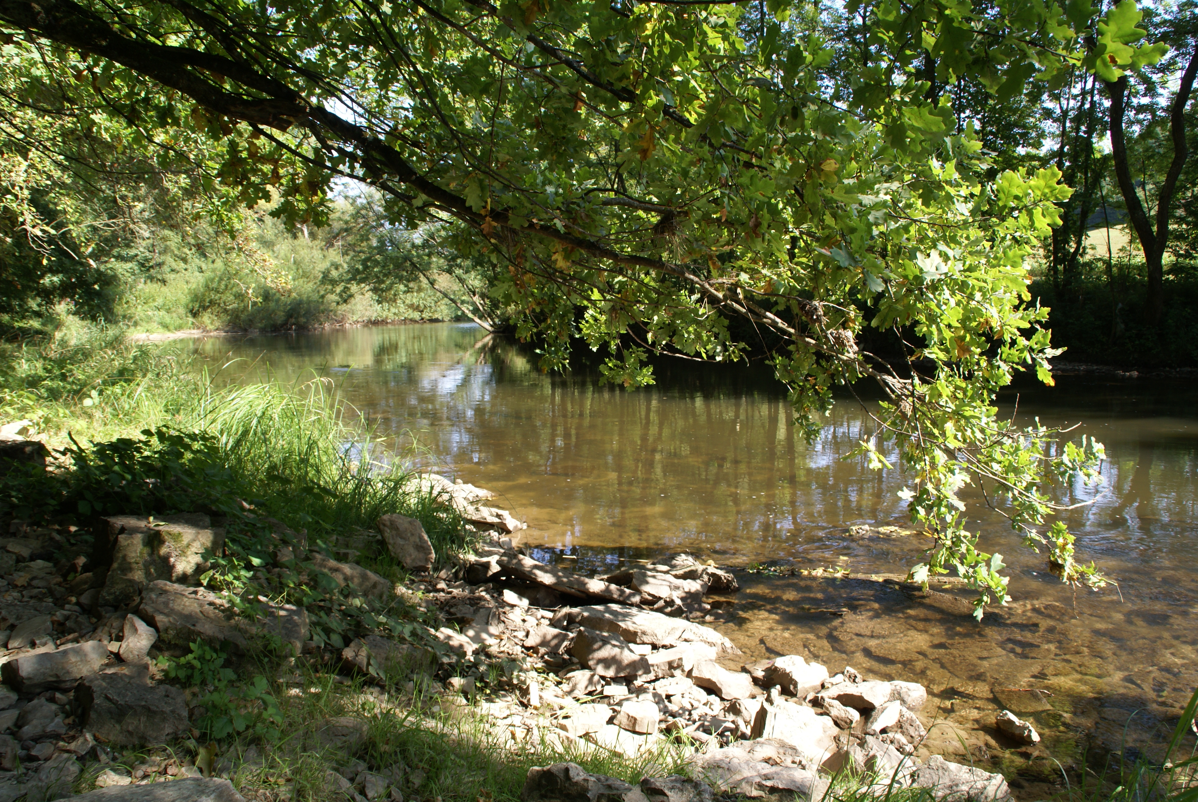 The picture shows the natural course of the Kocher at Rosengarten, upstream of Schwäbisch Hall. Here goes the Kocher very leisurely and is marked by the silence of nature.